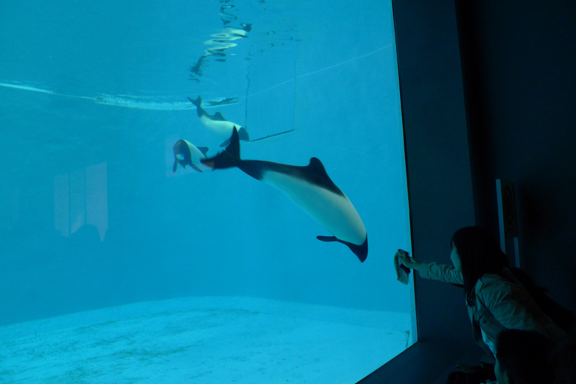 Commerson's dolphin(Cephalorhynchus commersonii), Toba Aquarium, Toba city, Mie pref, Japan